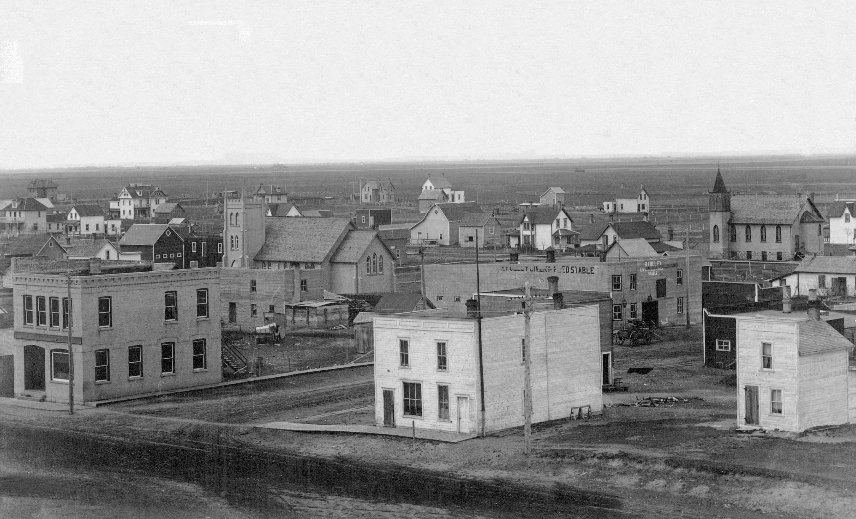 Original caption: “Elgin, Manitoba.”